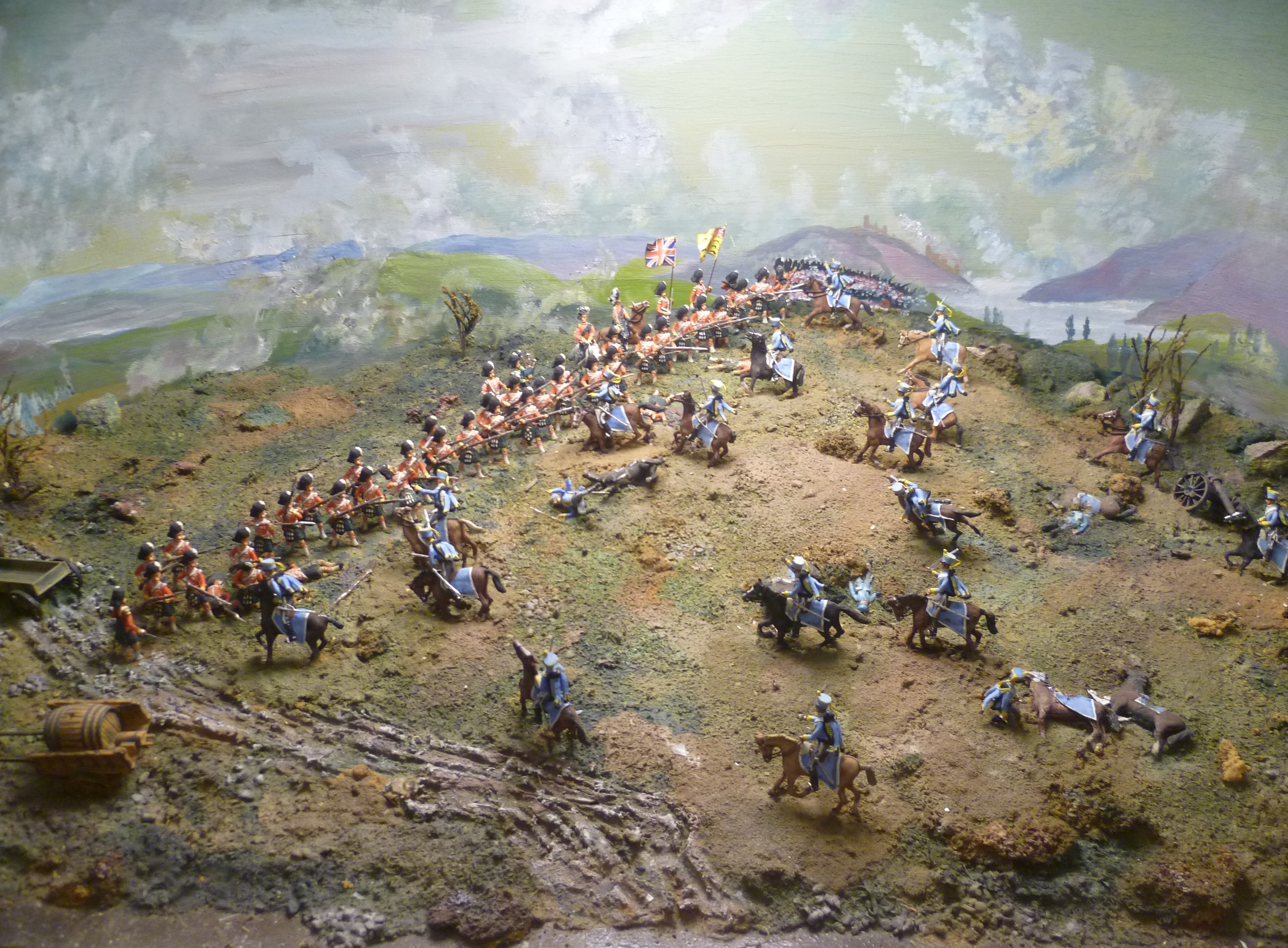 An exhibit in the Regimental Museum of the Argyll and Sutherland Highlanders